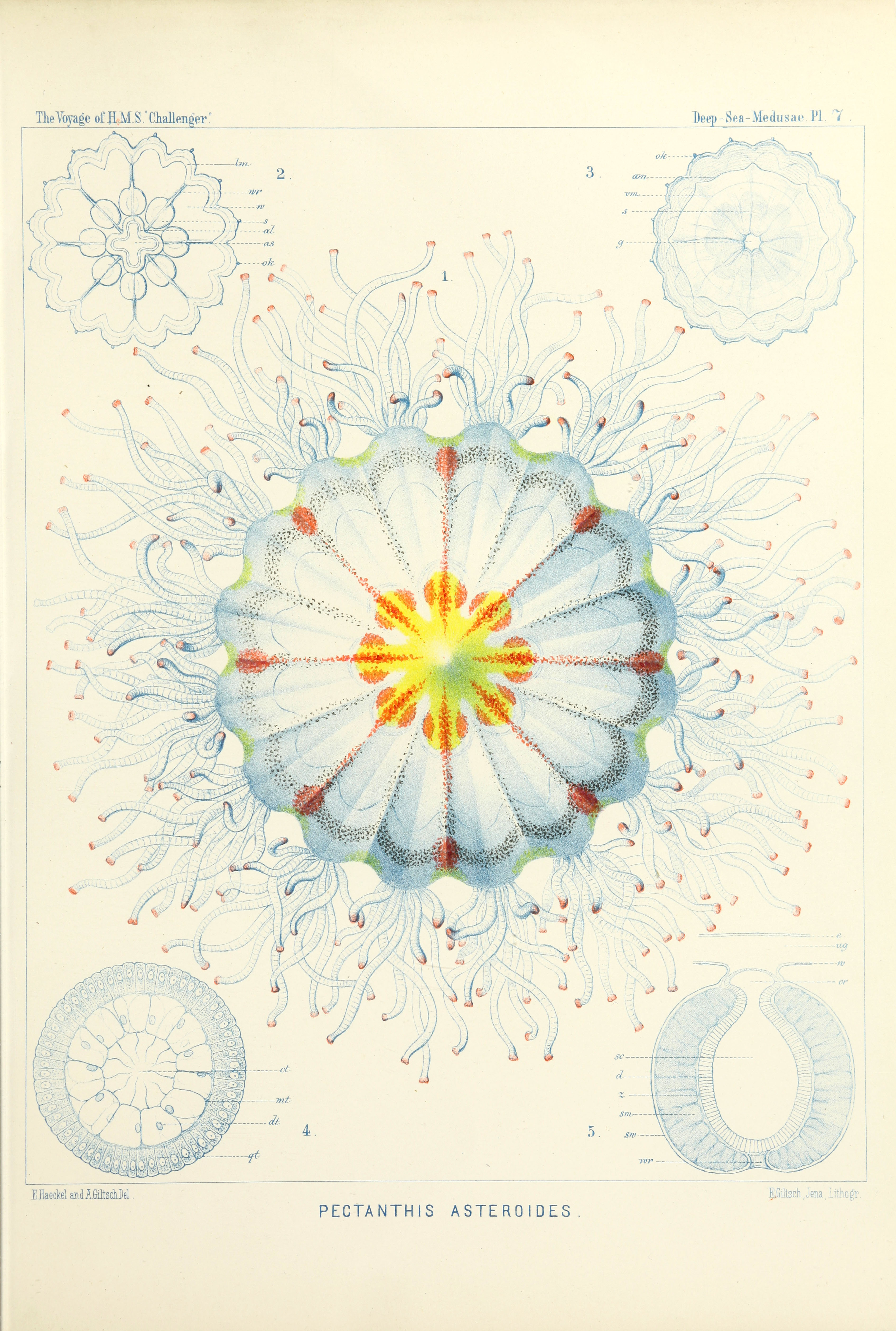 Pectanthis asteroides, synonym of Ptychogastria asteroides. From "Report on Deep-sea Medusae dredged by H.M.S.Challenger during the Years 1873-1876".